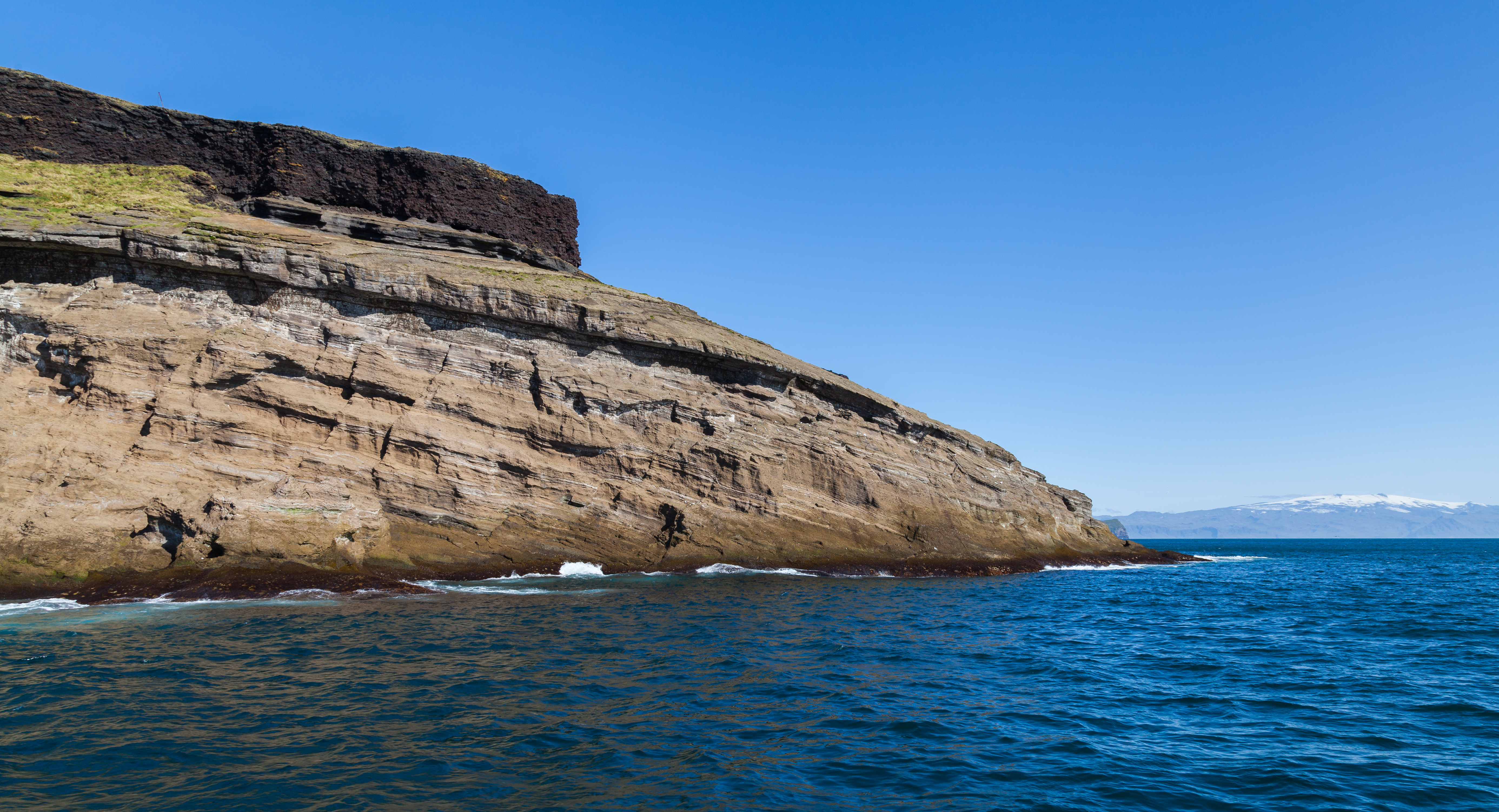 Cliffs of Heimaey, Westman Islands, Suðurland, Iceland